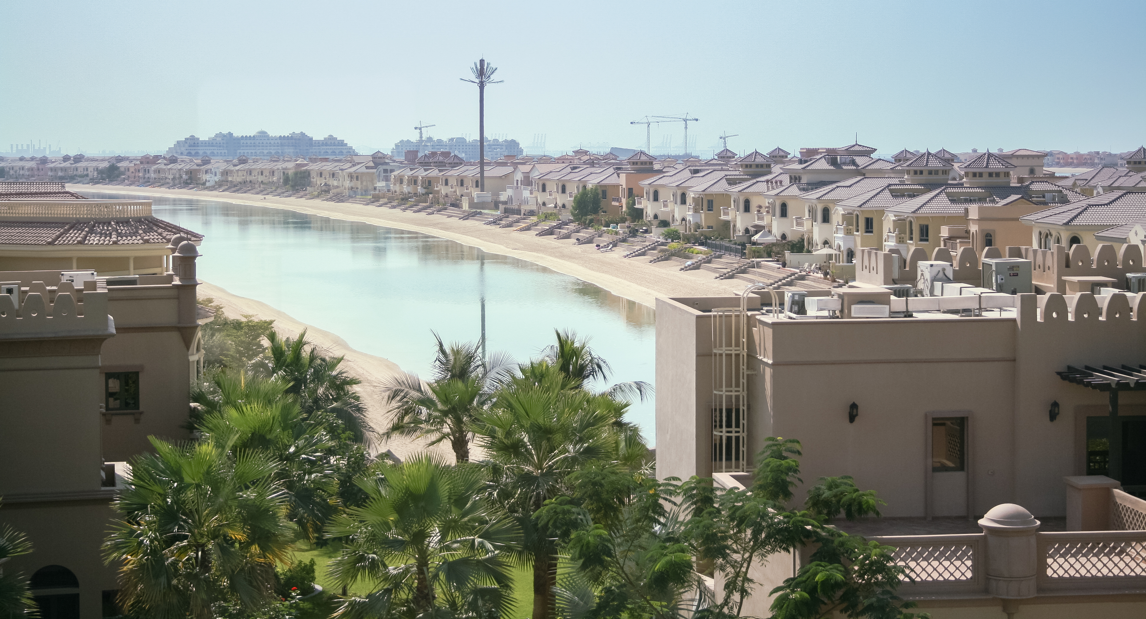 Villas on the Palm Jumeirah, Dubai, United Arab Emirates